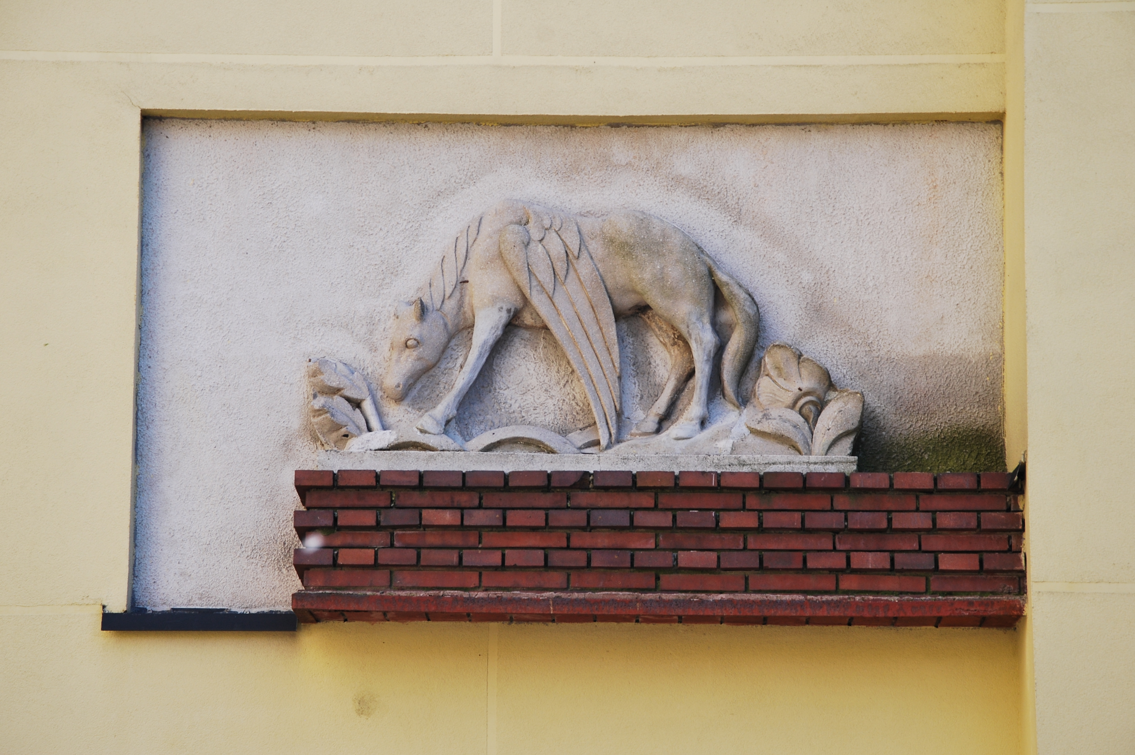 Pegasus on relief, Łódź 203 Piotrkowska Street yard